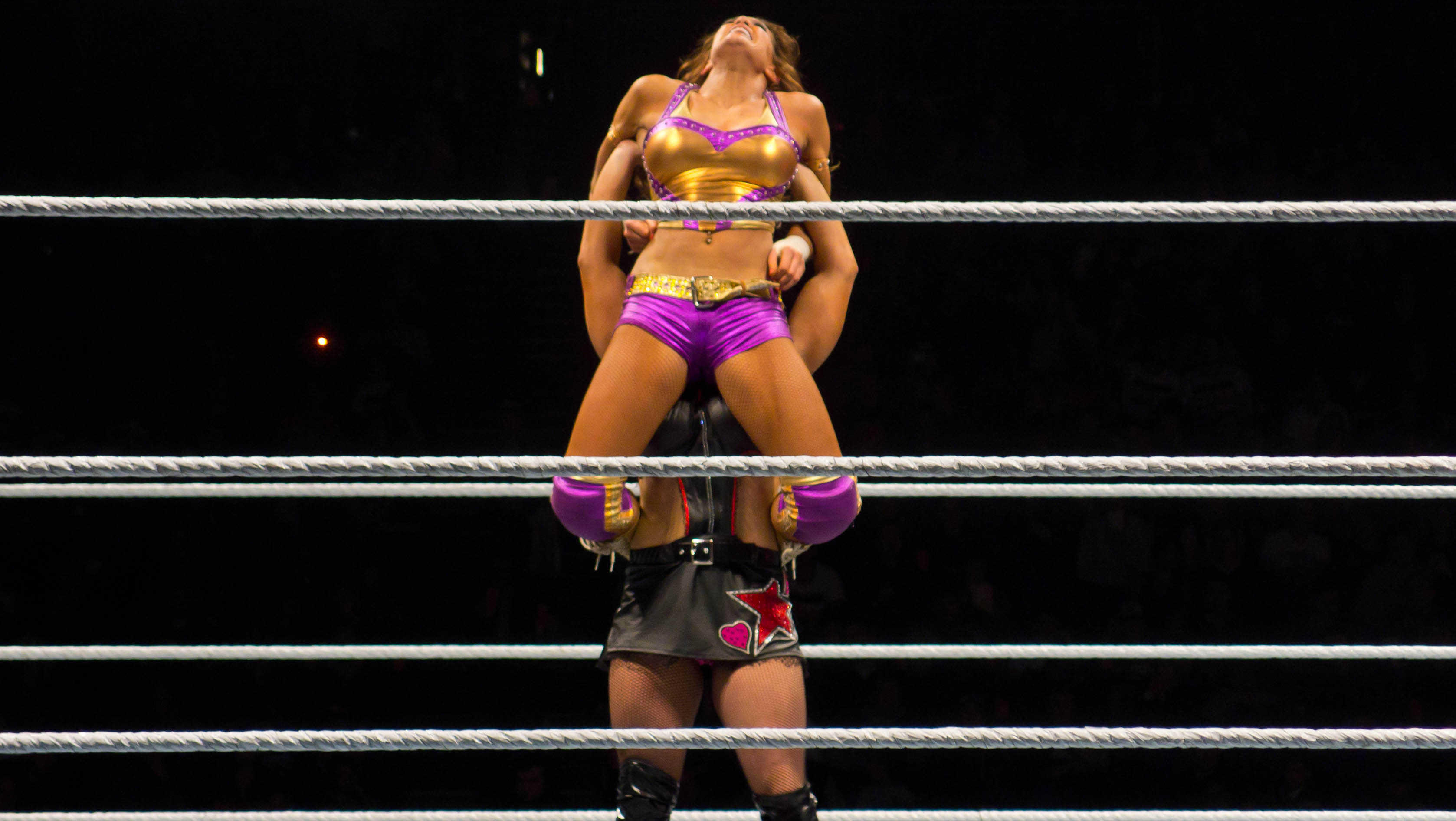 beth Phoenix performing the Glam Slam on Eve Torres at a WWE Raw World Tour house show in London in November 2011.